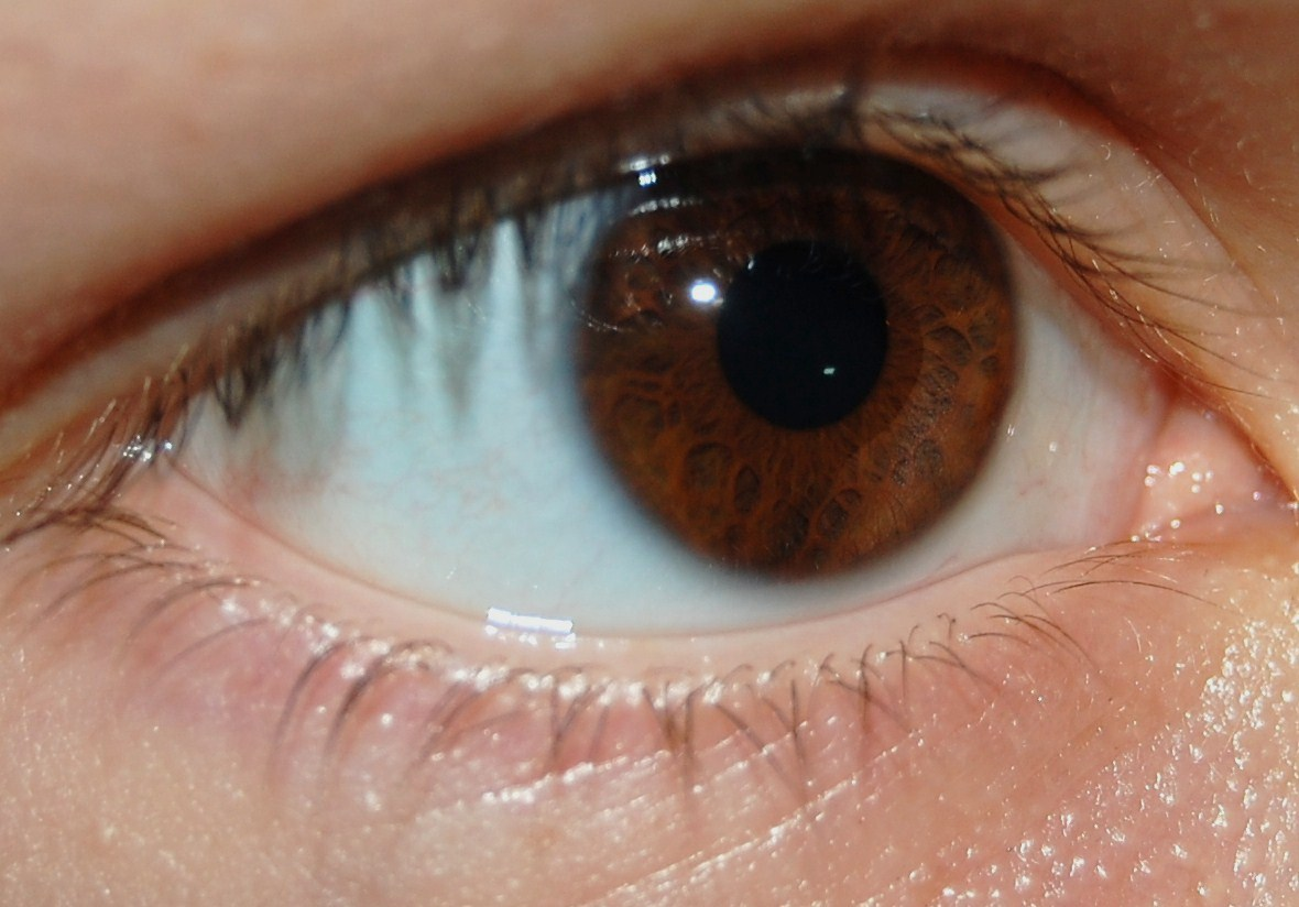 a human eye with brown iris